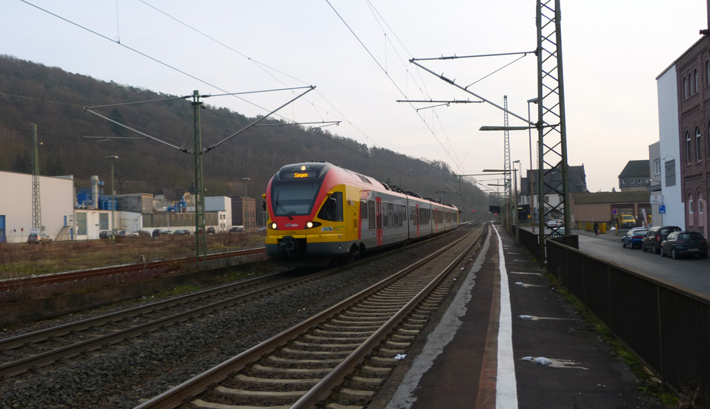 HLB EMU 429 044 at Herborn Station, Germany